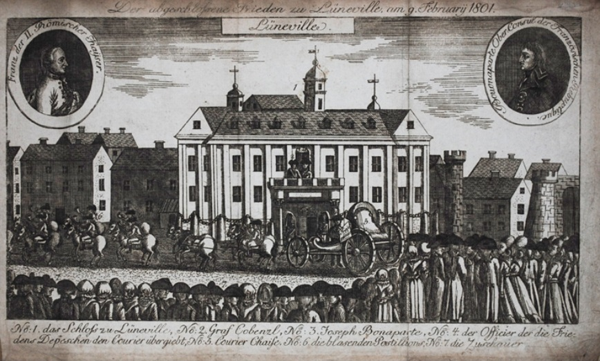 Early 19th-century engraving commemorating the signing of the Peace of Lunéville 9 February 1801. The medallions show Emperor Francis II and First Consul Bonaparte. In the German-language description, it is said that the two men standing at the balcony are Joseph Bonaparte and Count von Cobenzl, the French and Austrian envoys who negotiated and signed the treaty. In the front, a mail coach is departing bringing the news of the signing of the treaty. The building is the mayor's residence and not, as is mistakenly said, the Chateau of Lunéville (Schloss Lunéville) a much larger building at the edge of the town.